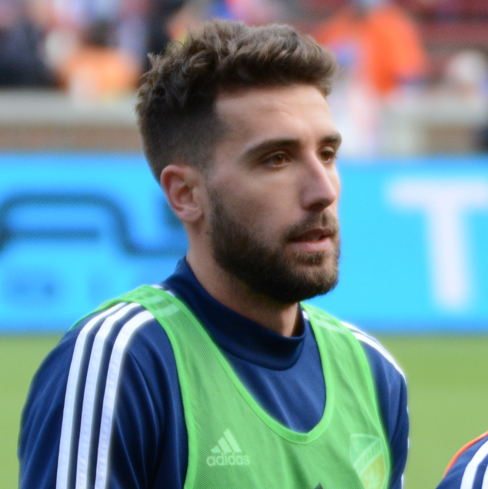 Taken during FC Cincinnati's Major League Soccer regular season home opener match against Portland Timbers at Nippert Stadium in Cincinnati, USA on March 17, 2019.